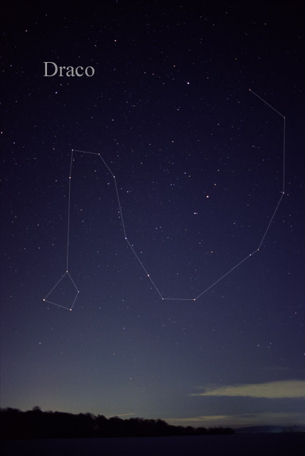 Photography of the constellation Draco, the dragon